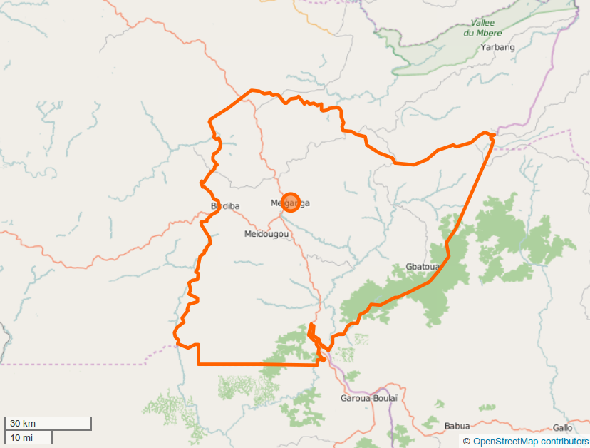 Meiganga, Cameroon ː boundaries with OSM. This map may be incomplete, and may contain errors. Don't rely solely on it for navigation.